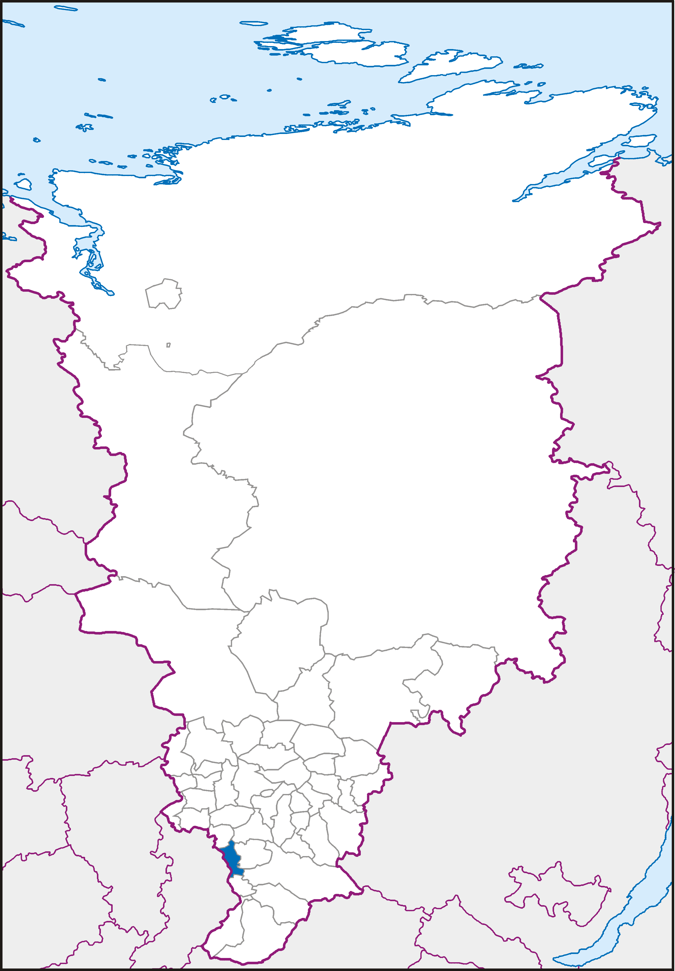 Map of Krasnoyarsk Krai in Albers Equal-Area Conic projection (Central Meridian = 95° E)